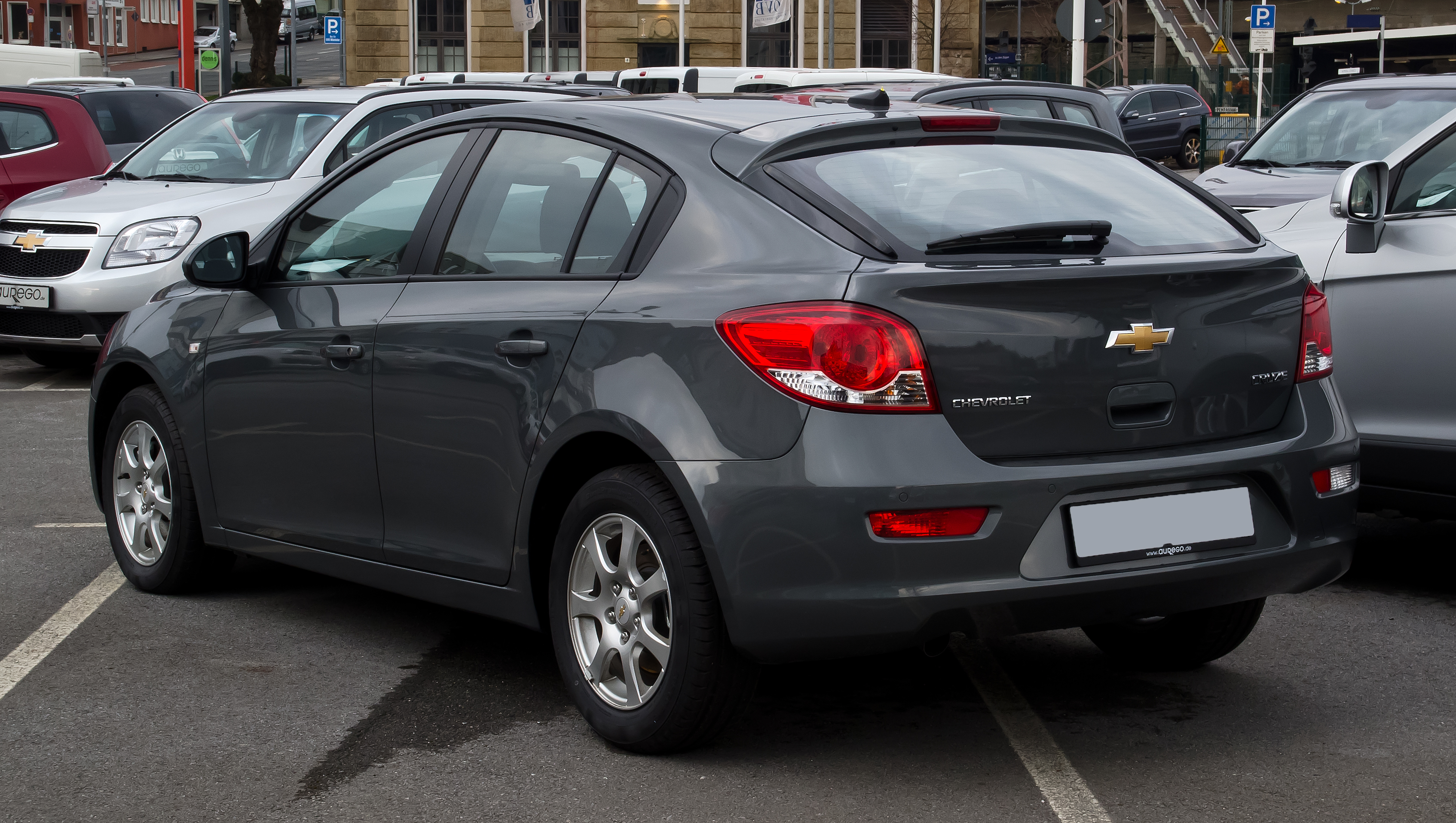 Chevrolet Cruze LT 2.0 D Business Edition